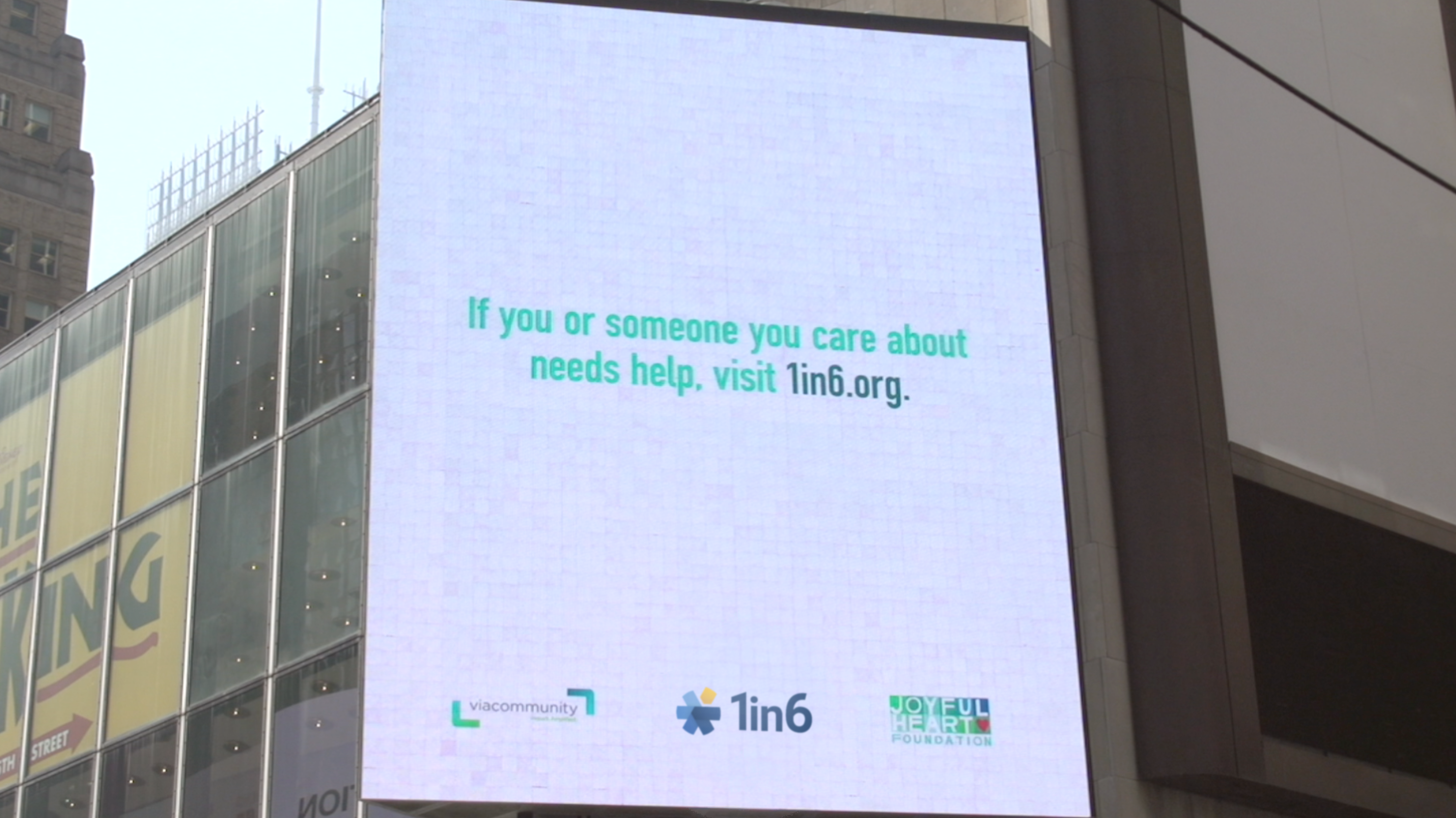 NO MORE PSA